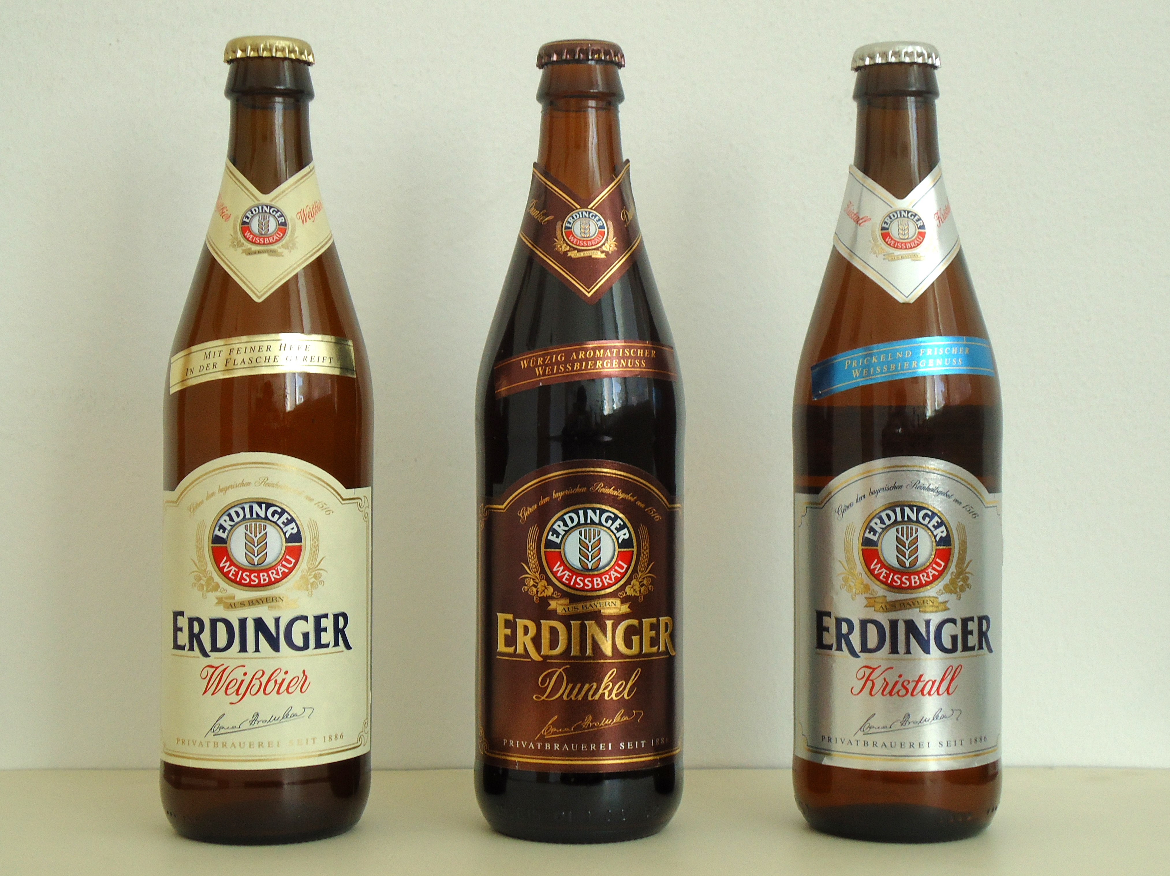 Erdinger 3 beers